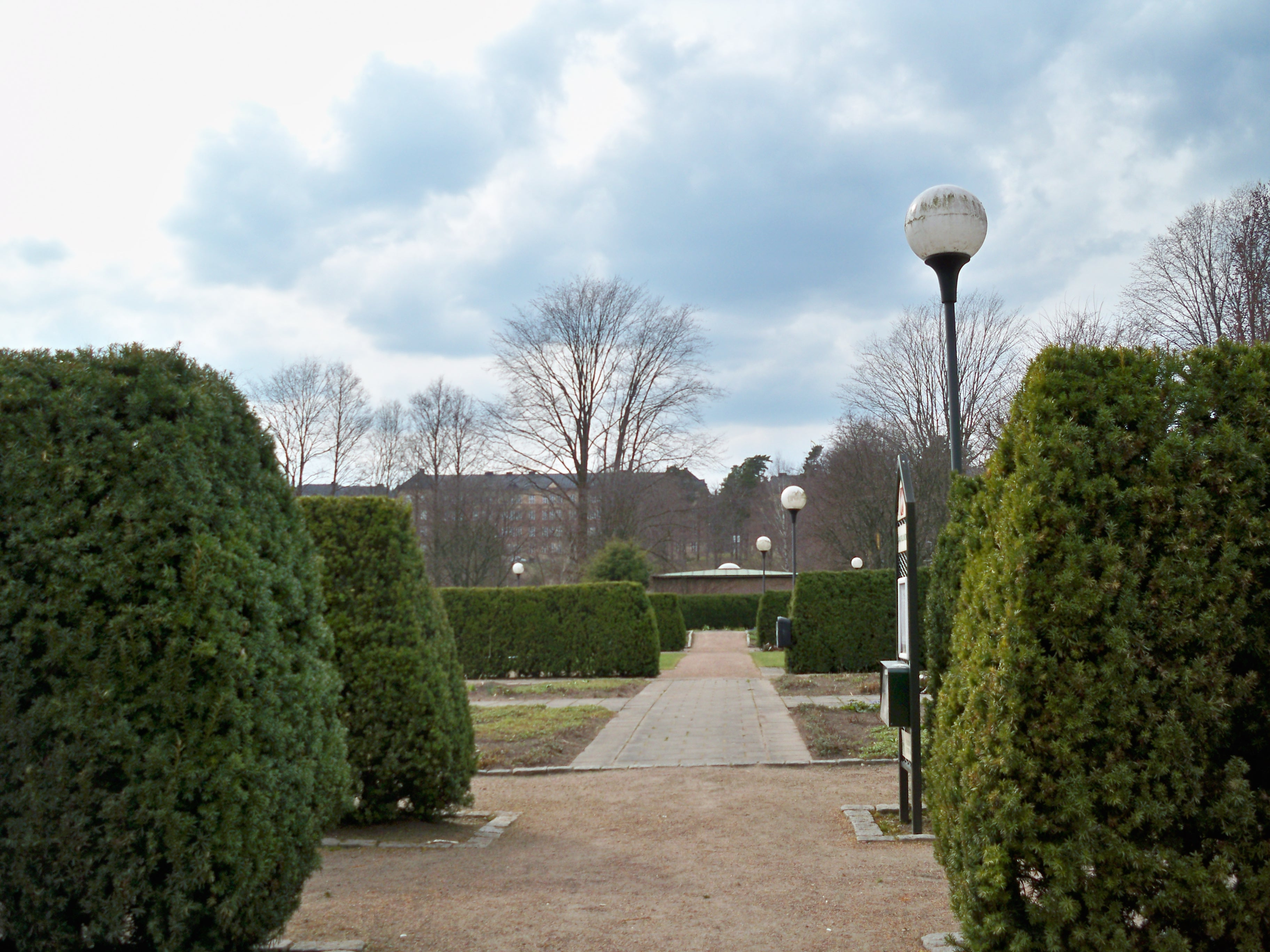 A strict park called Major Grove (Majorslunden) in March, in the city of Borås, Sweden. An old shut down regiment building in the background.